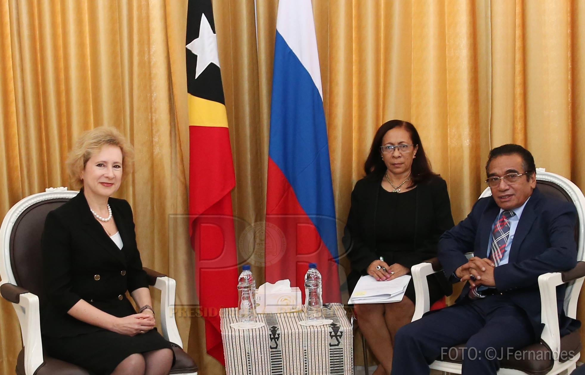 Lyudmila Vorobieva, ambassador of Russia to East Timor and Indonesia